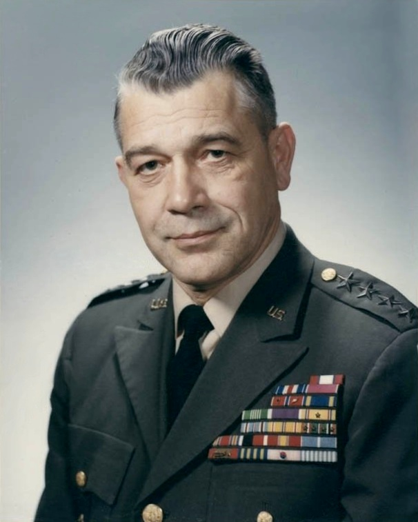 Color bust photo of U. S. Army General Ferdinand J. Chesarek in uniform.